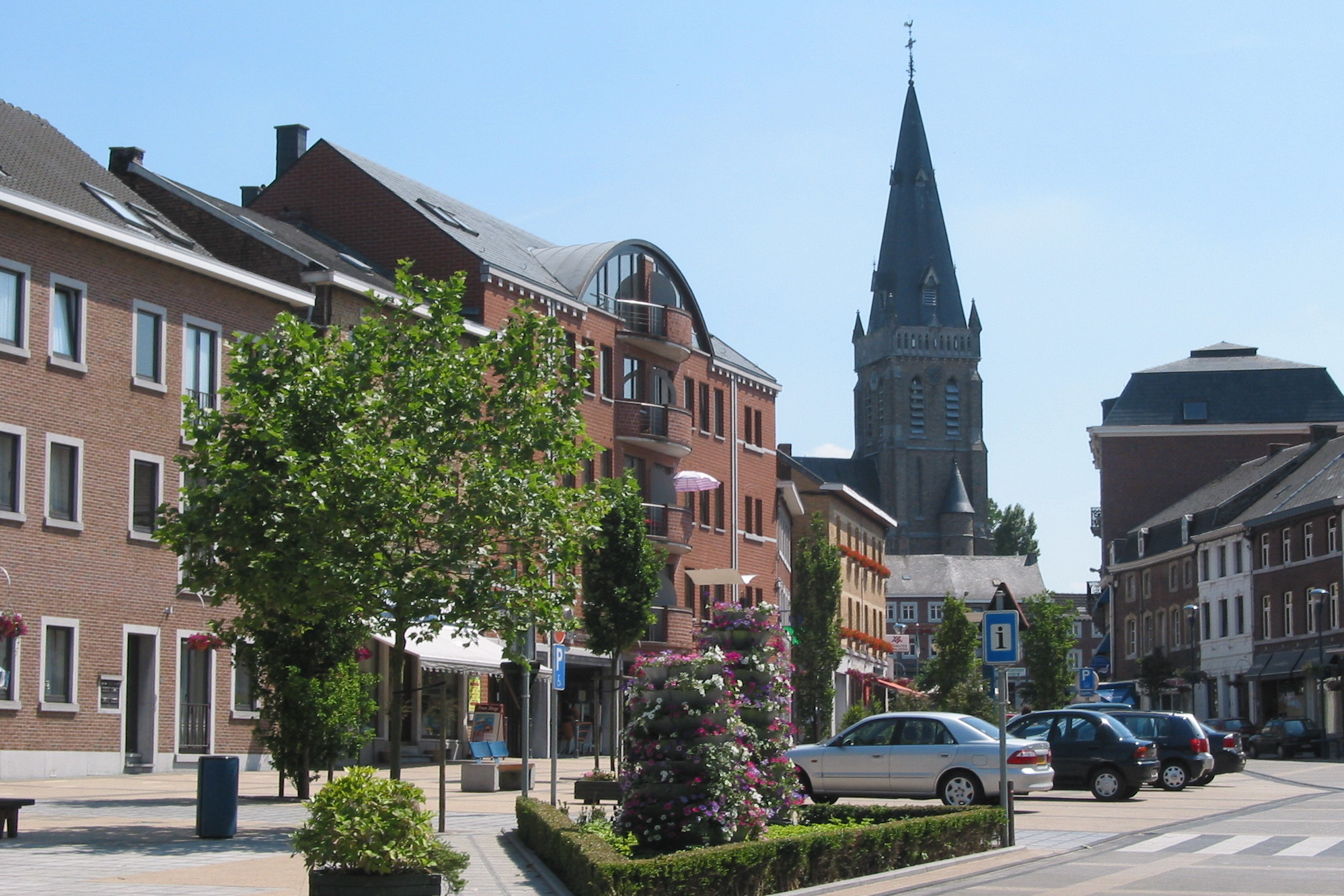 Aubel (Belgium), place Nicolaï.